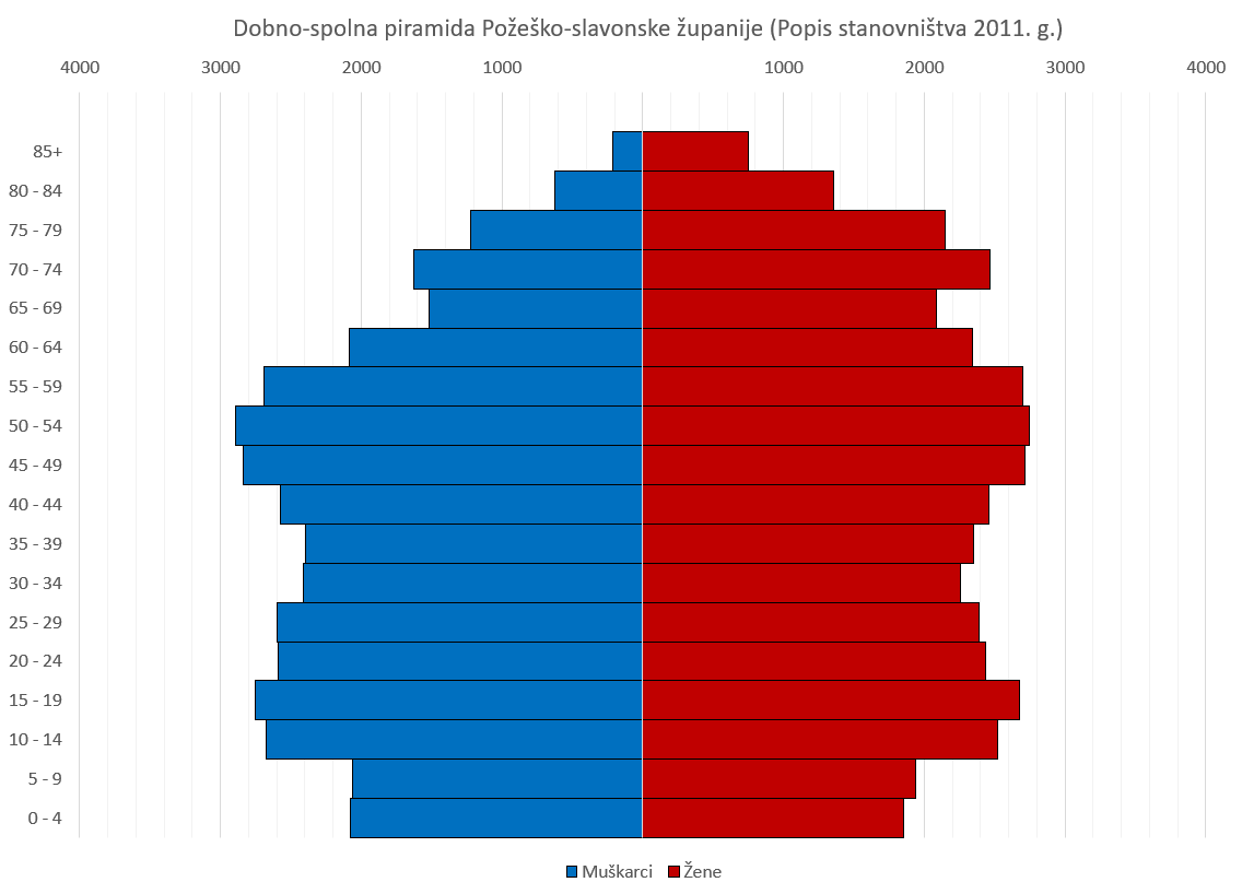 Population pyramid of Požega-Slavonia County. Version in Croatian. Data from 2011 Census; available at